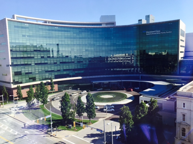 The home of Cleveland Clinic's Heart & Vascular Institute, and main entrance.